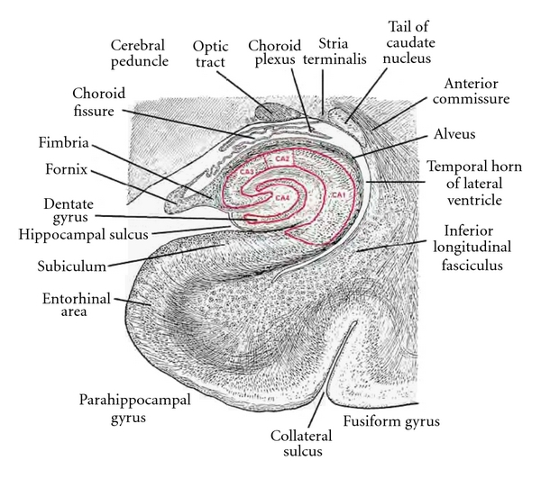 Hippocampus and Cornu Ammonis regions (CA1, CA2, CA3, CA4)